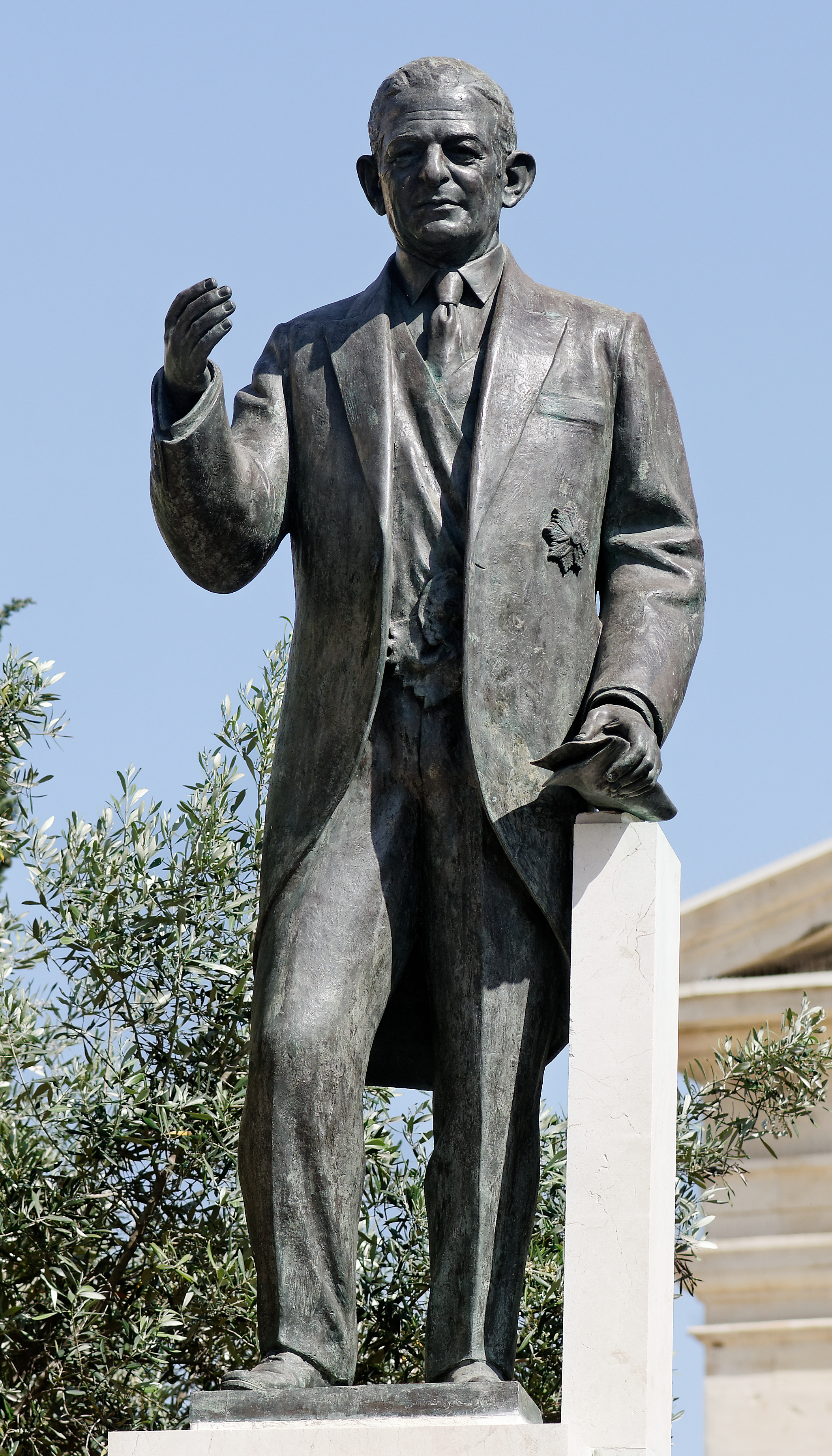 Statue of Giorgio Borg Olivier (1990) by Vincent Apap (1909–2003). Castille Square, Valletta.